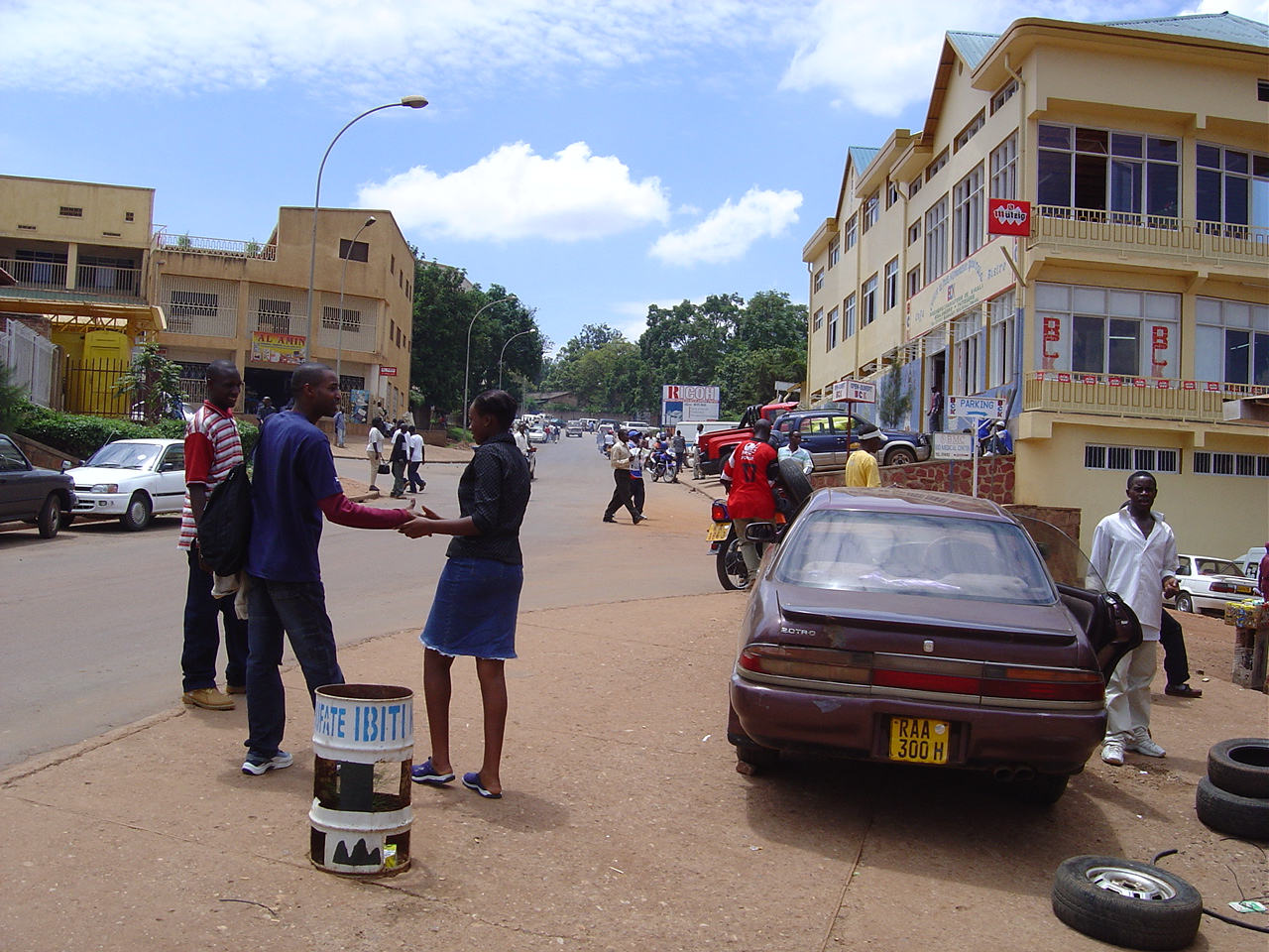 Typical street scene in Kigali, Rwanda